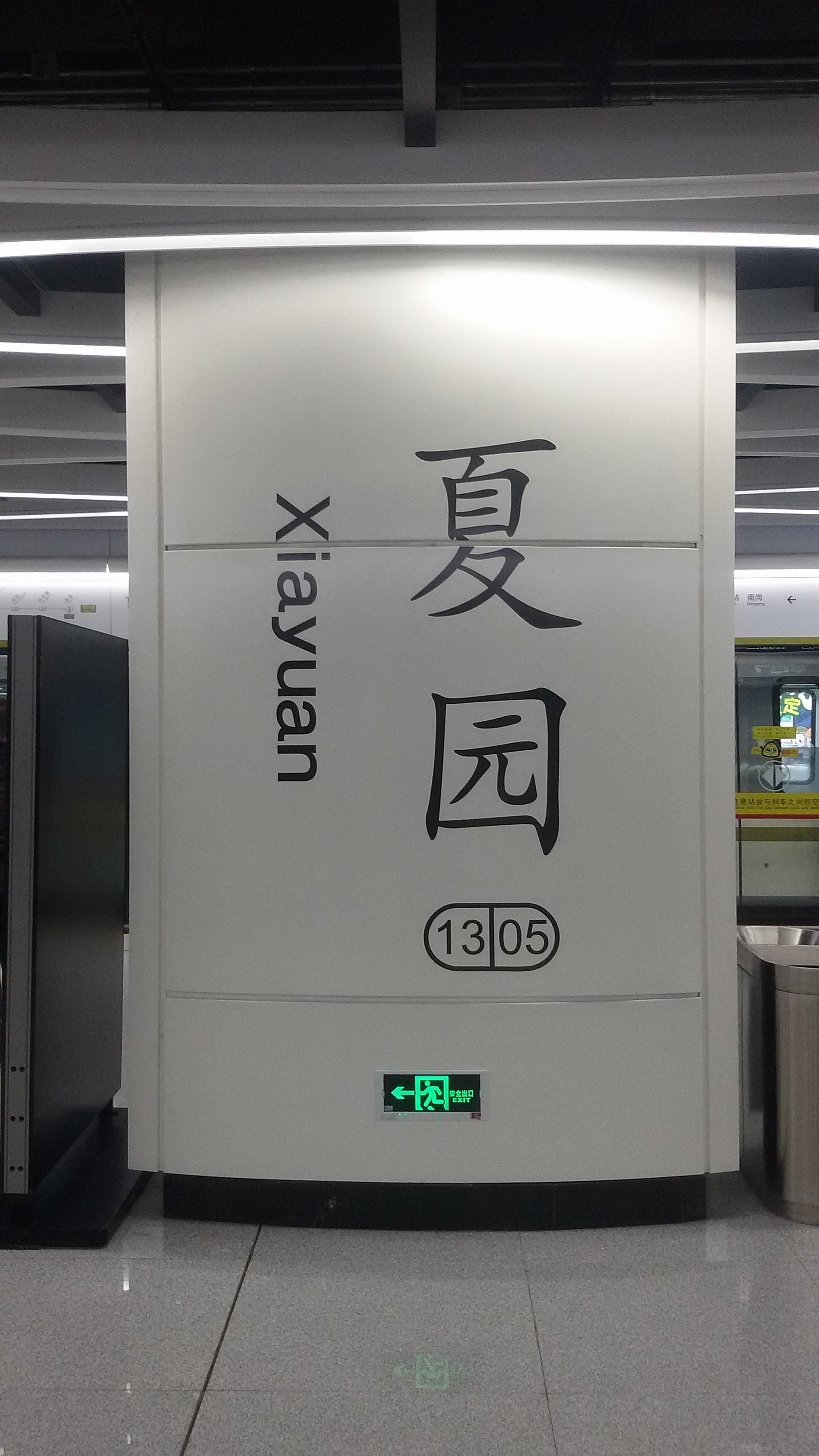 WORD on PILLAR for Xiayuan Station in Guangzhou Metro